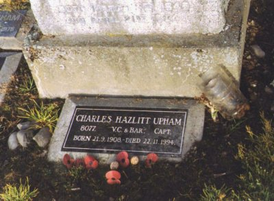 Grave photo of New Zealand World War II Victoria Cross recipient Charles Hazlitt Upham, in the graveyard of St Paul's Church Papanui.